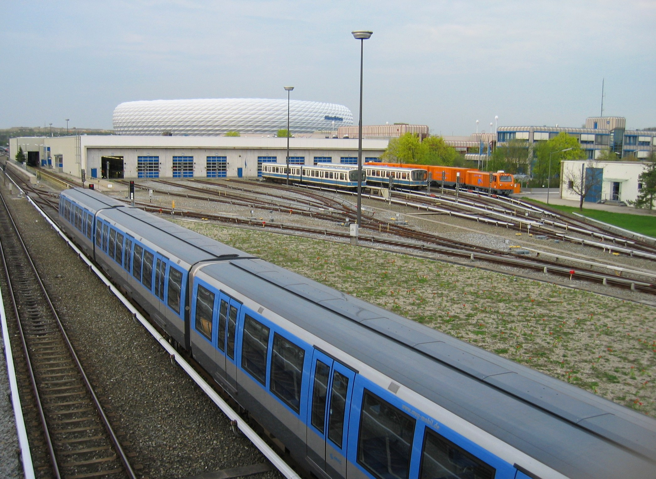 Description: Munich subway northern depot Author: FloSch